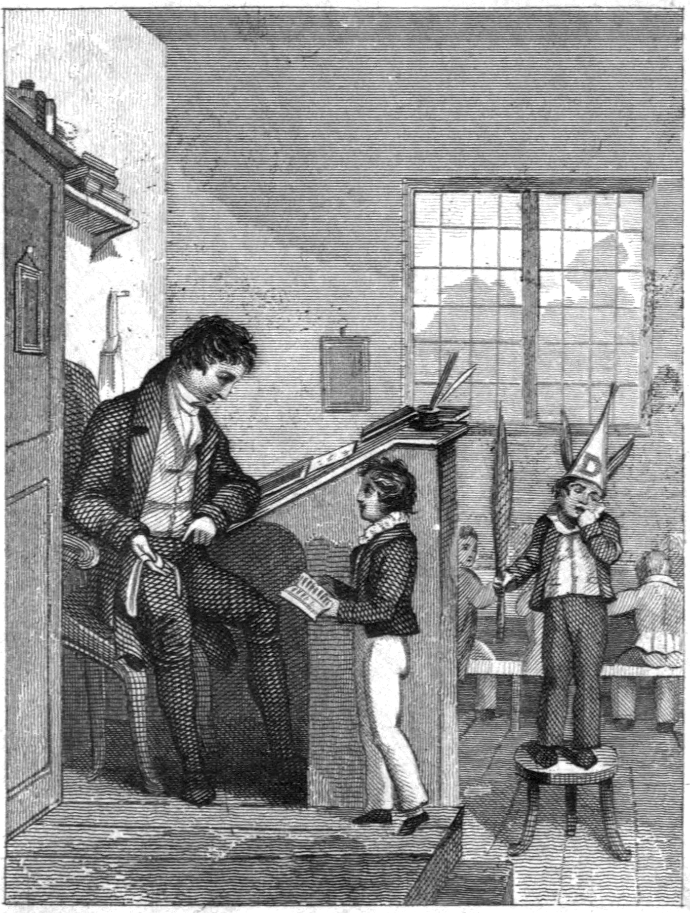 A good child and a bad child (wearing dunce cap with ass’s ears) in a schoolroom